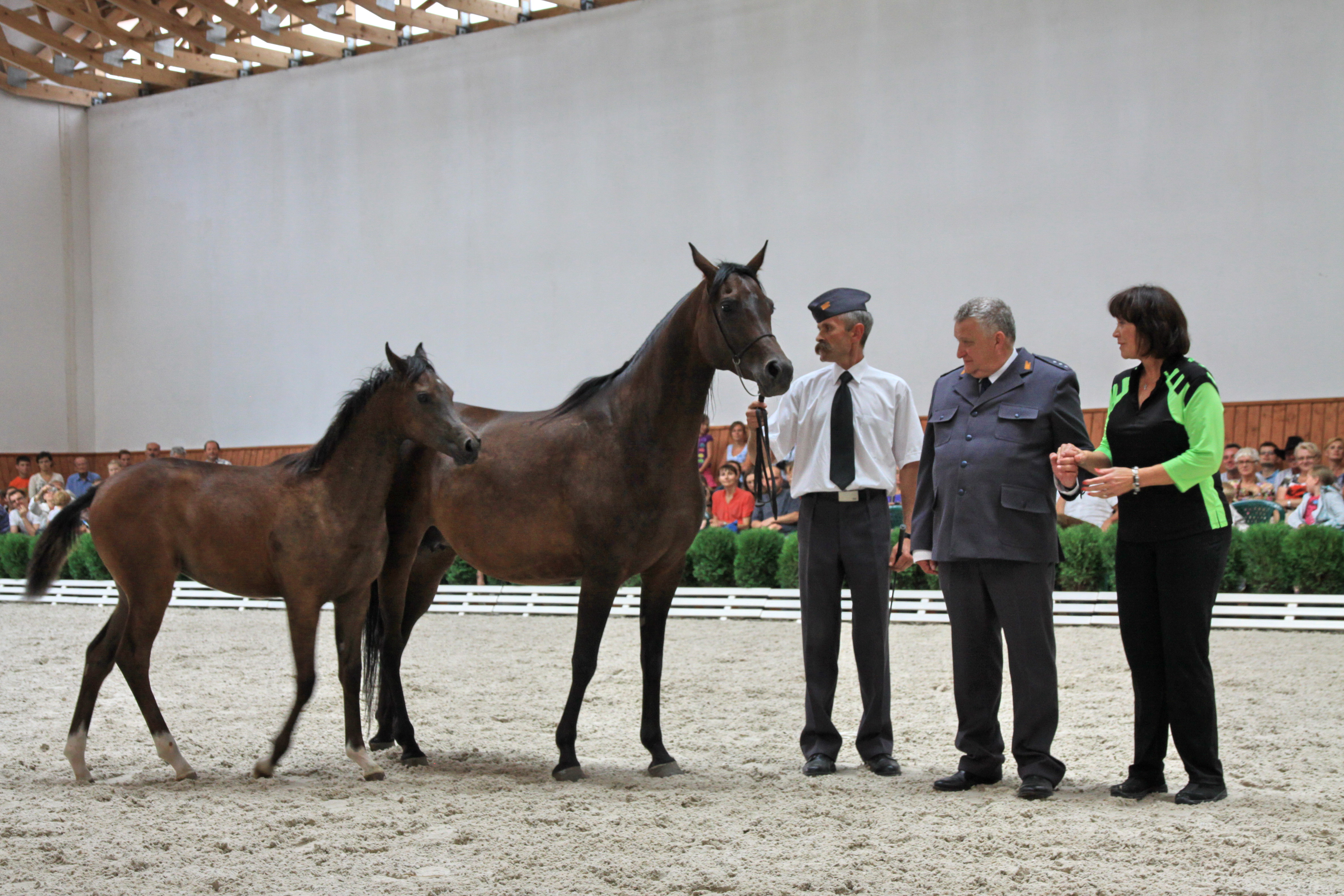 Great Parade Michalów at Michalow Stud, 20 August 2013.